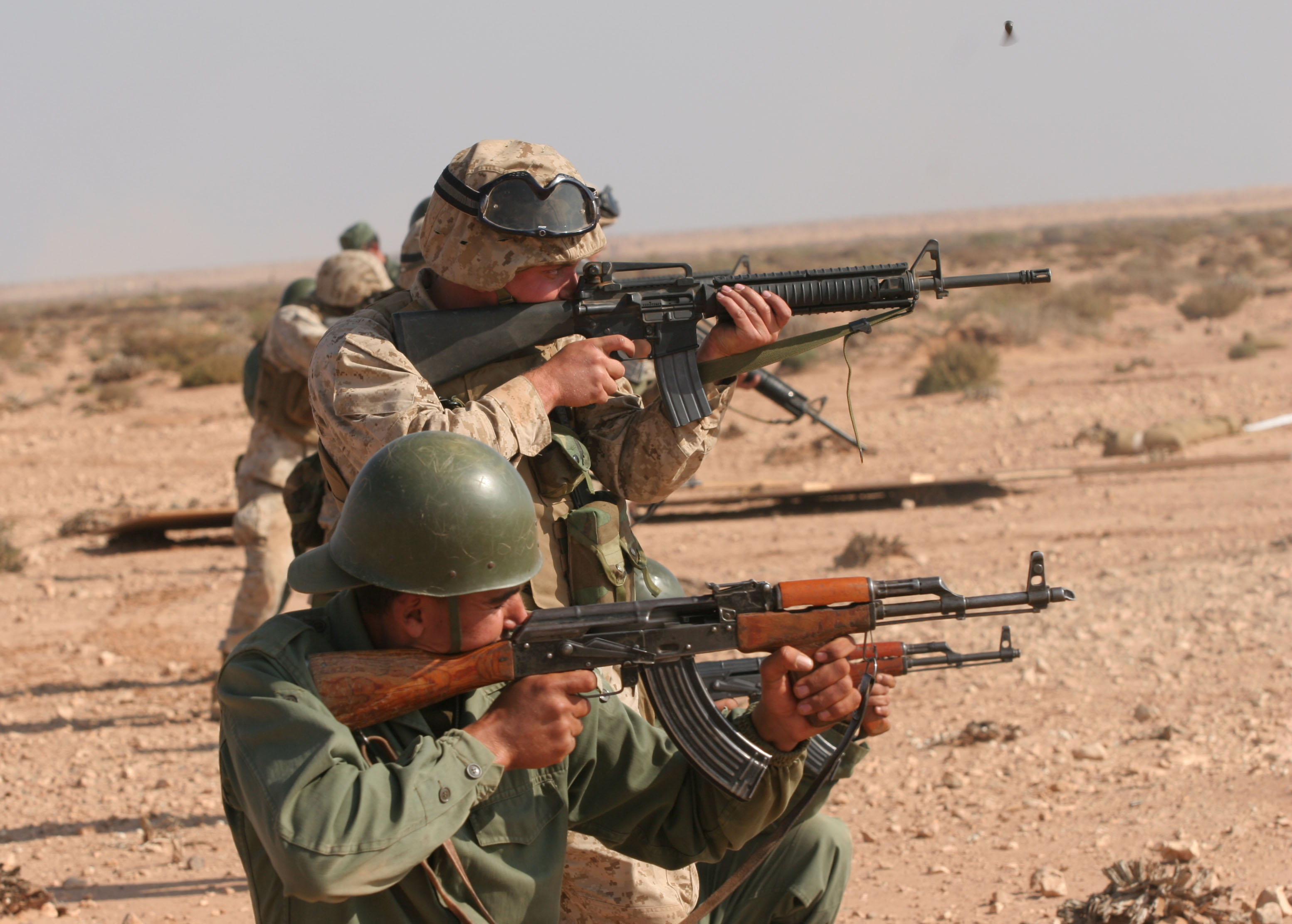 CAP DRAA, Morocco(March 20, 2007) -- A Marine from Weapons Company, 2nd Battalion, 23rd Marine Regiment based in Port Hueneme, Calif., fires an M-16A2 service rifle, while a Moroccan soldier fires an AK-47 assault rifle in here during exercise African Lion 07. The exercise is a regularly-scheduled, combined U.S. - Moroccan military exercise designed to promote improved interoperability and mutual understanding of each nation’s tactics, techniques and procedures. Photo by: Cpl. Dustin Schalue Photo ID: 20074278812 Submitting Unit: Marine Forces Europe Photo Date:04/20/2007